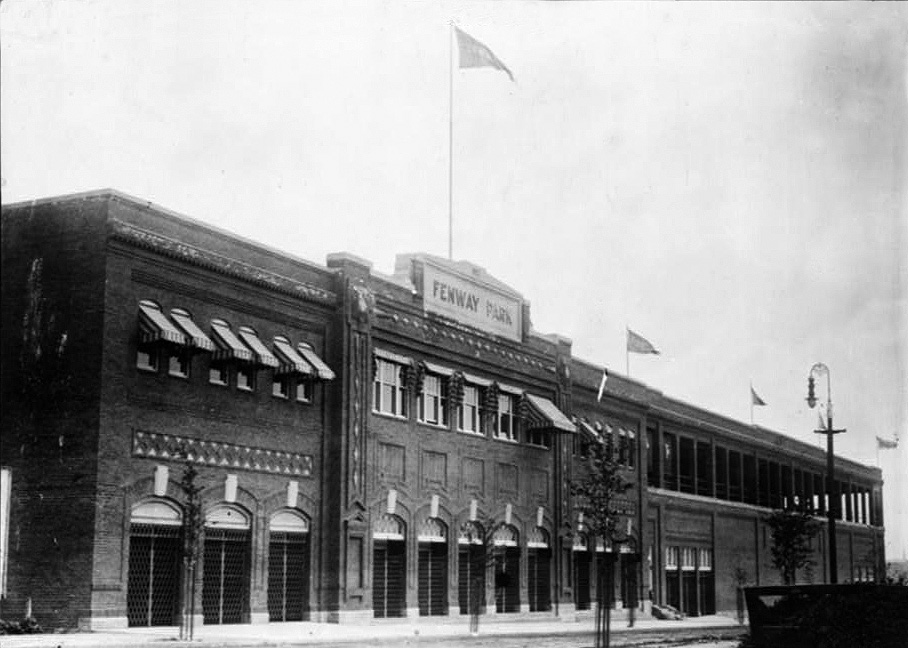 Fenway Park exterior.